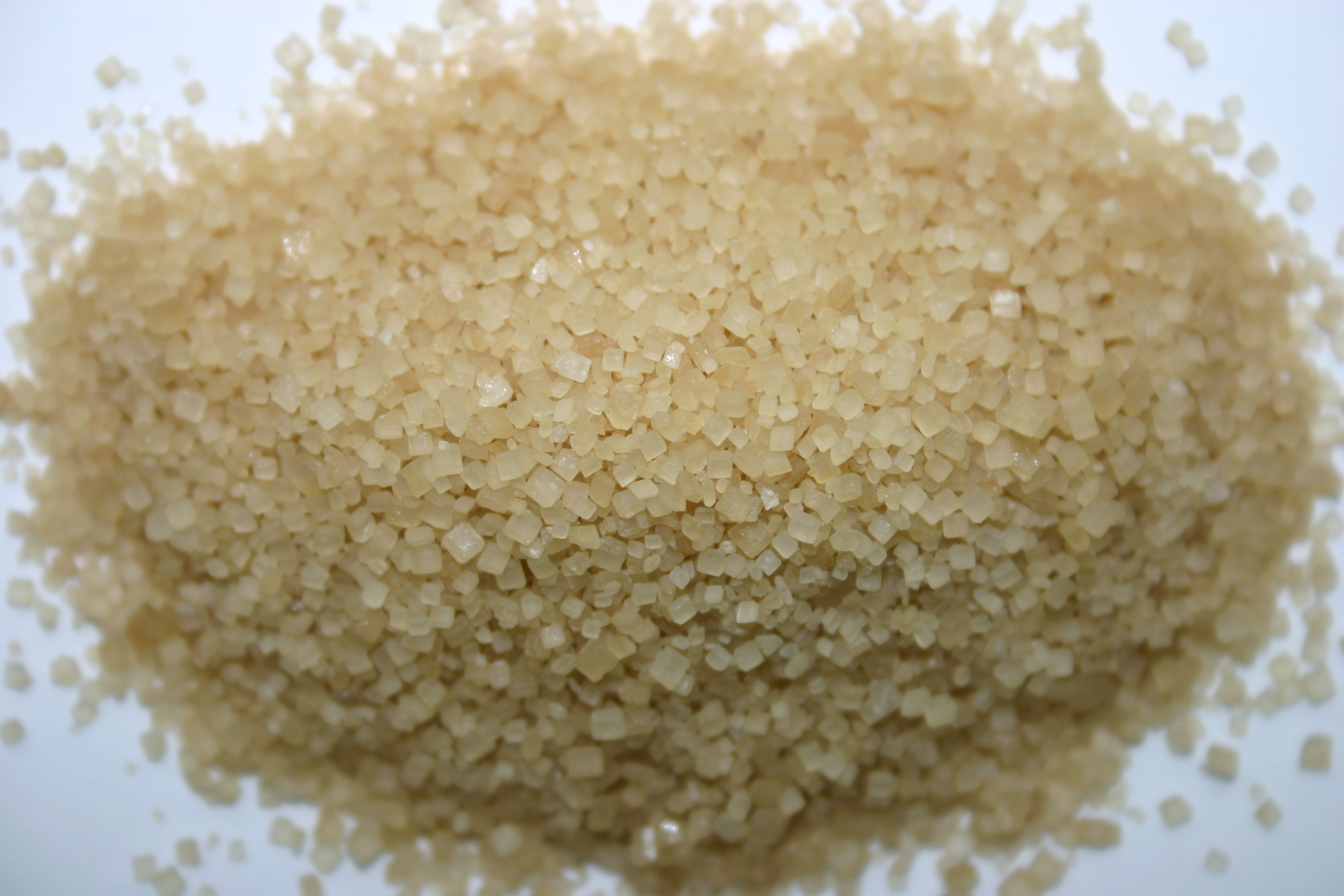 raw cane sugar, Demerara